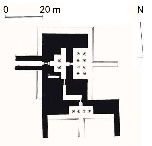 Valley Temple of the Saure Pyramid at Abusir